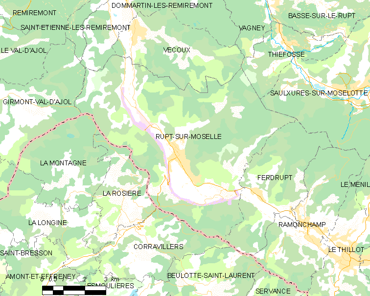 Map of French municipality Rupt-sur-Moselle